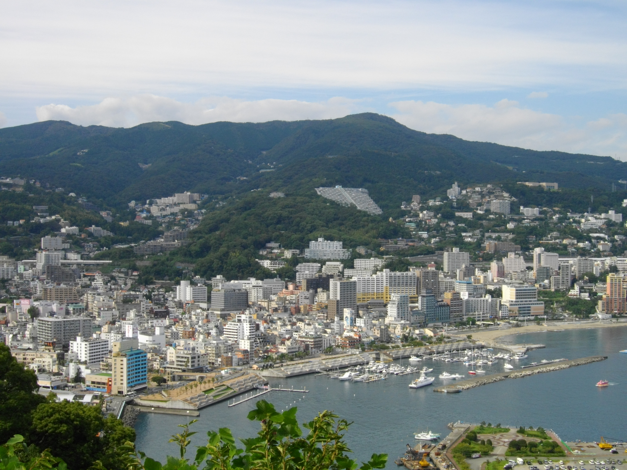 View of Atami